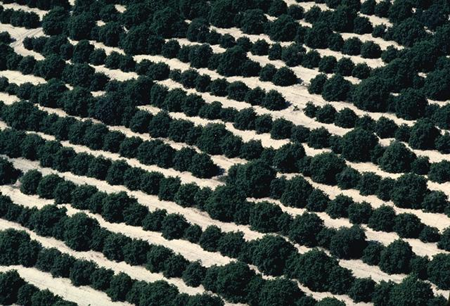 An aerial view of an orange grove in California, United States